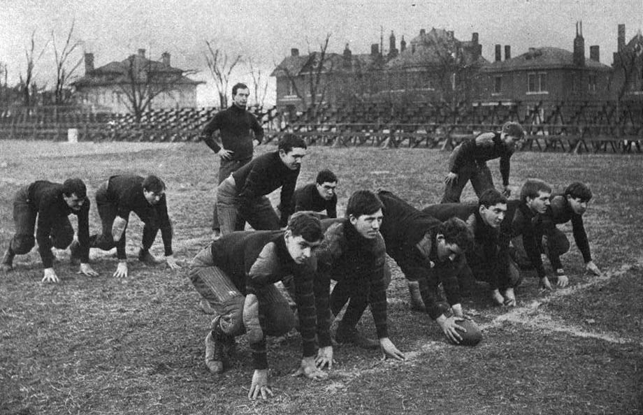 Vanderbilt University Football Team Lined up on the Offense. on the line, left to right: Owsley Manier (right end); J. Hamilton Brown (right guard); Robert C. Patterson (center); Stein Stone (left guard); Hillsman Taylor (left tackle); Innis Brown (left end). in the backfield, left to right: Honus Craig (right halfback); Ed Hamilton (fullback); Frank Kyle (quarterback) (and behind him is Coach Dan McGugin), capt. Irish Graham (right tackle); and Dan Blake (left halfback).